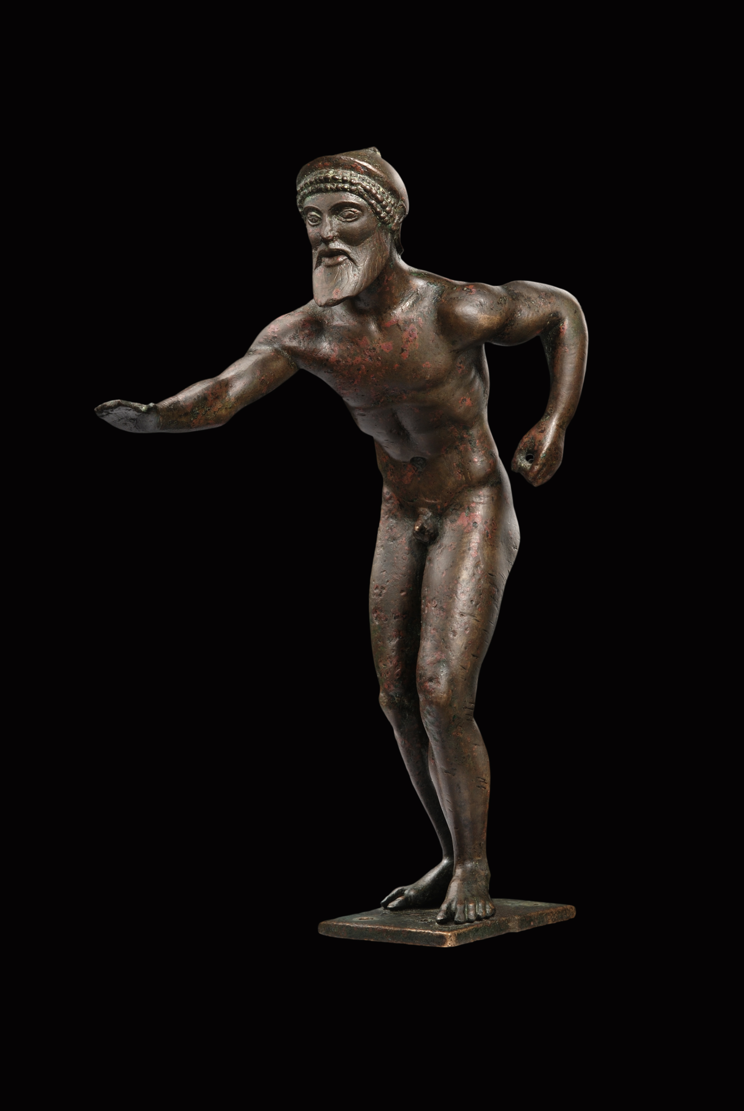 So-called Tübingen weapons runner, Attic,. To 490/480 BC., Collection of Classical Archaeology at the University of Tübingen.